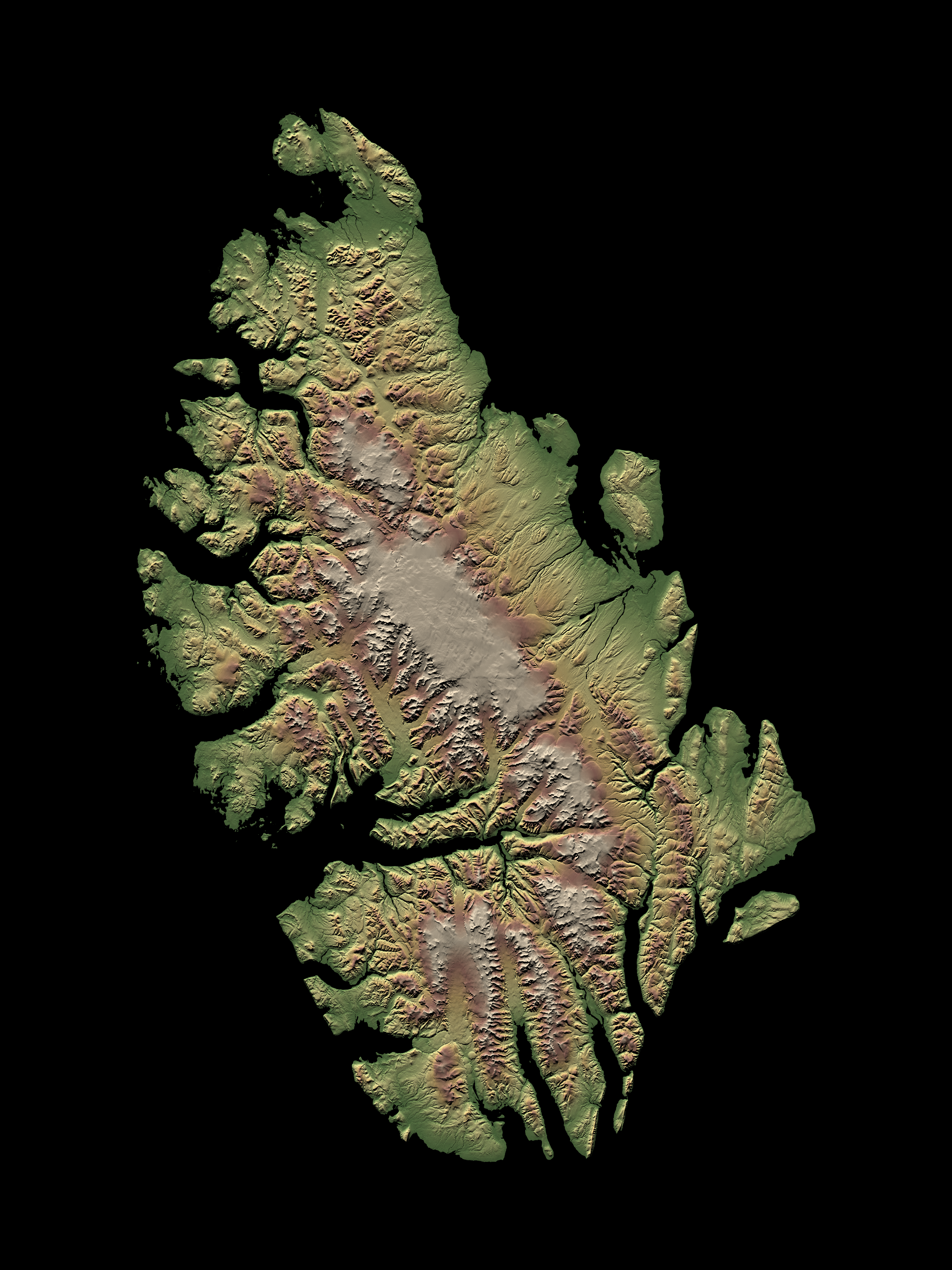 A shaded relief map of Axel Heiberg Island in Nunavut, Canada. Data sourced from the Canadian Digital Elevation Model and CanVec.